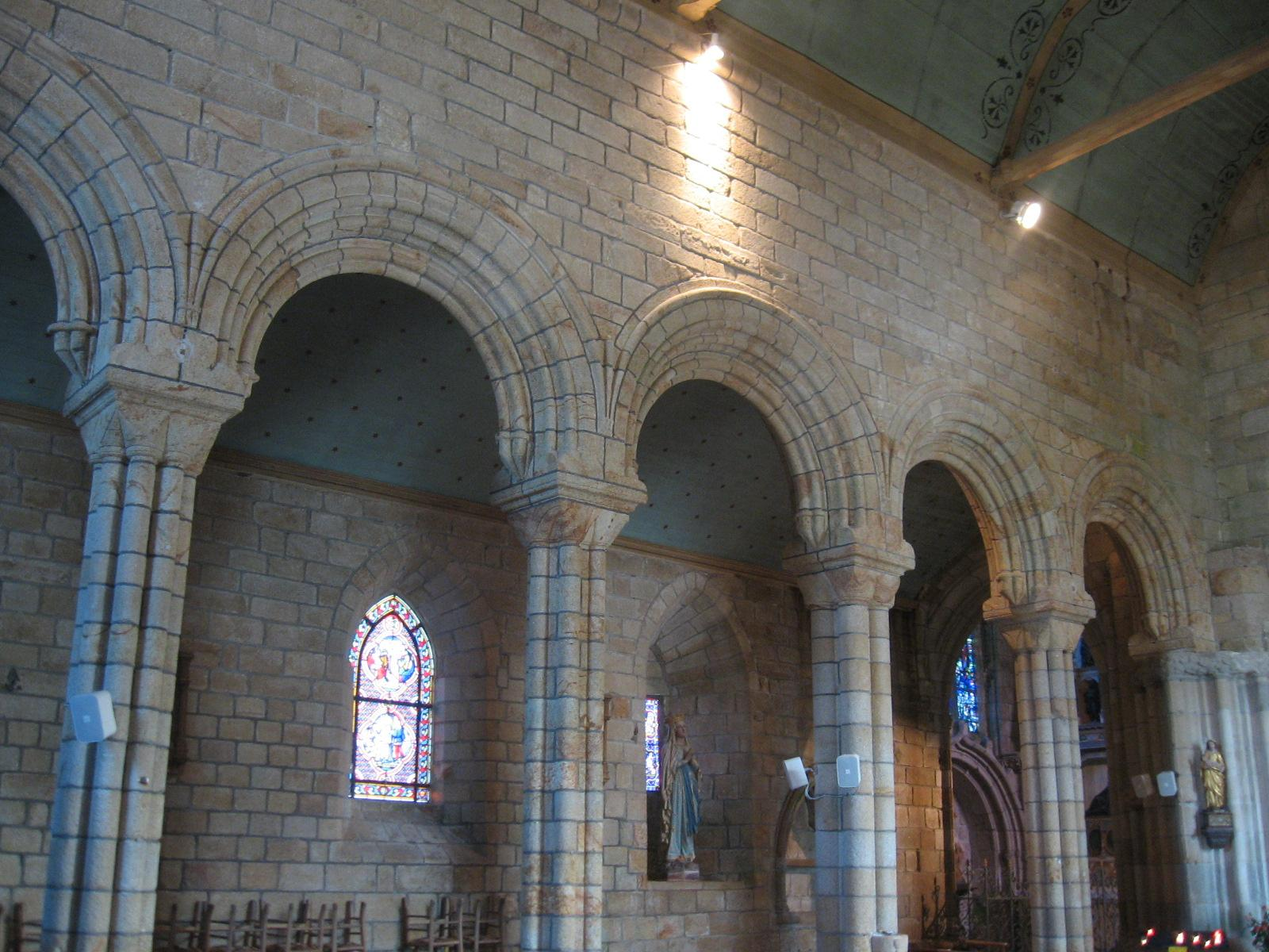 Collégiale ND de Roscudon, Pont-Croix : grandes arcades nord de la nef